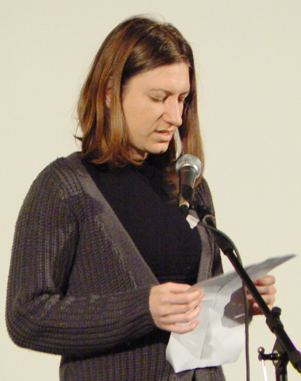 Bulgarian poet Maria Kalinova (on a charity literary reading for Haiti people, House of Cinema, Sofia, Bulgaria)